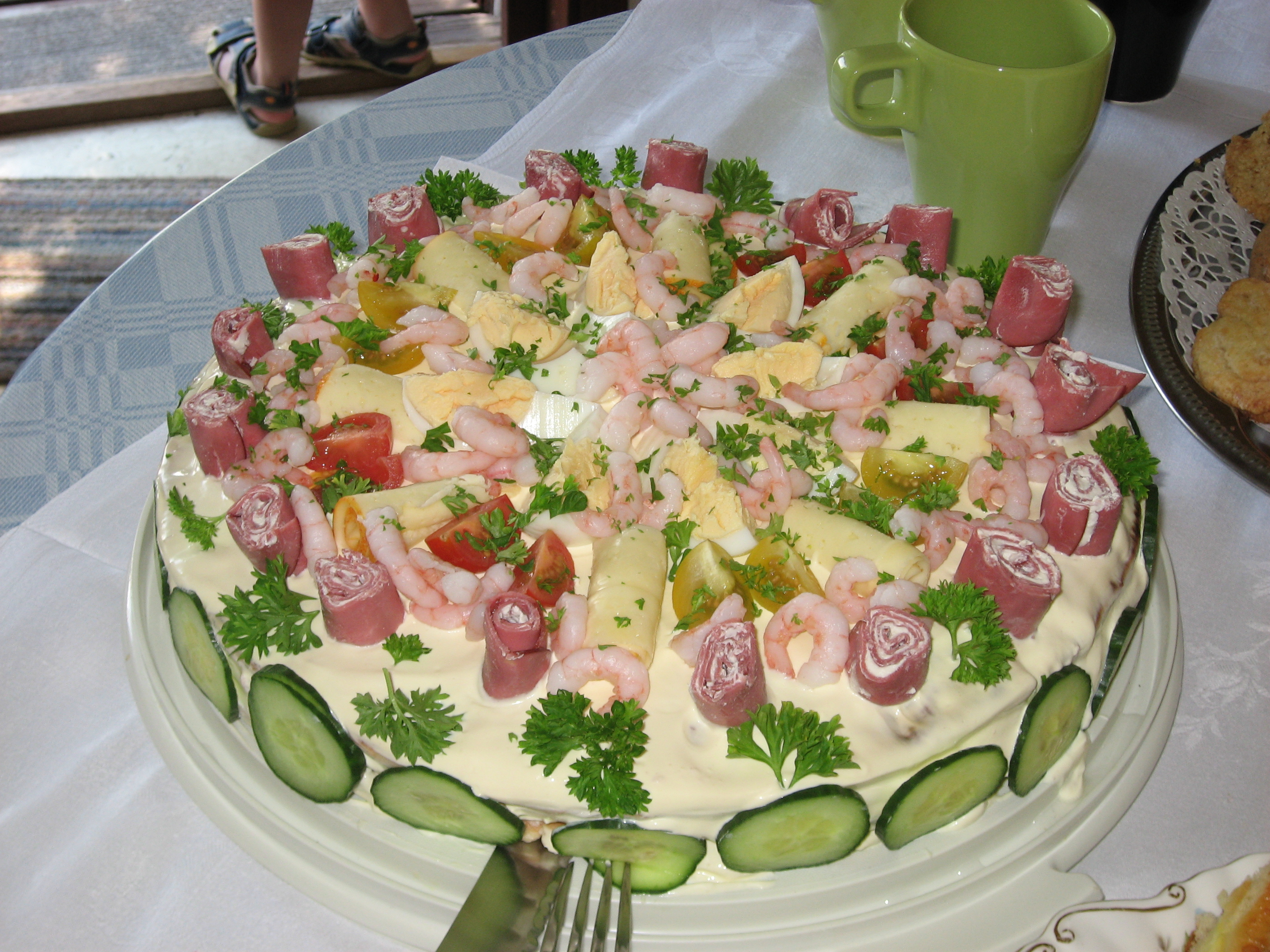 A "sandwich cake", a savory cake made of sandwich materials and decorated with egg, shrimp, cucumber, etc. Made by my aunt for my grandfather´s birthday. It was very yummy.